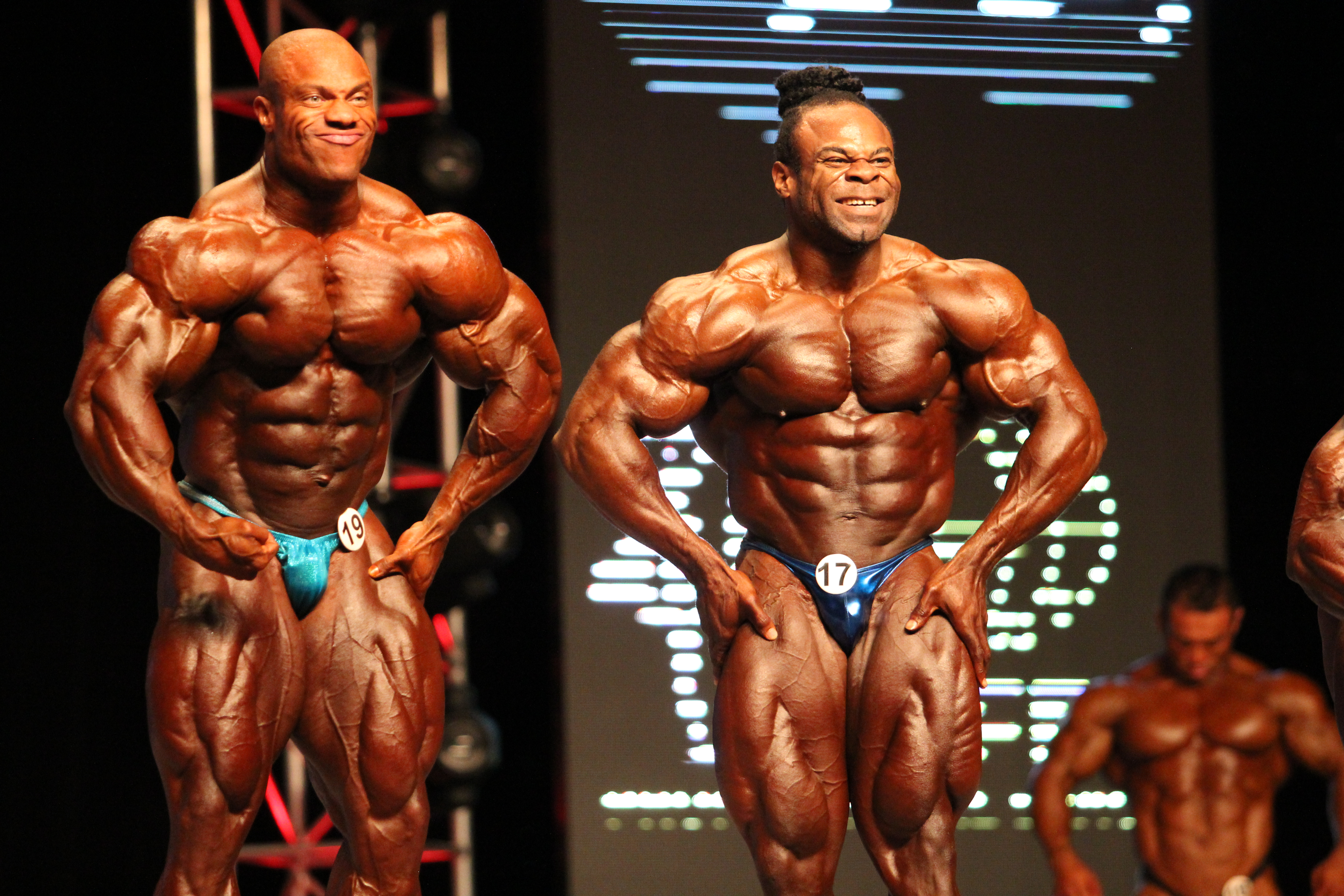 Phil Heath hitting the most muscular pose against Kai Greene at the Mr. Olympia 2012 in Las Vegas